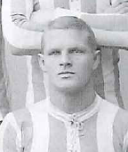 Finnish international footballer Kaarlo Soinio. Cropped from File:HJK_champions_1911.png